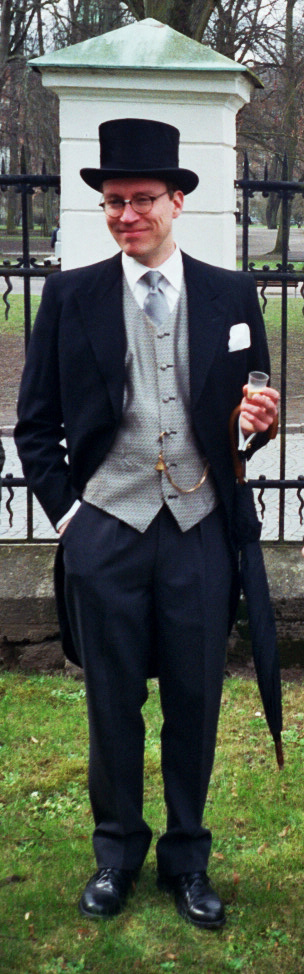 A Swedish gentleman wearing morning dress with top hat.